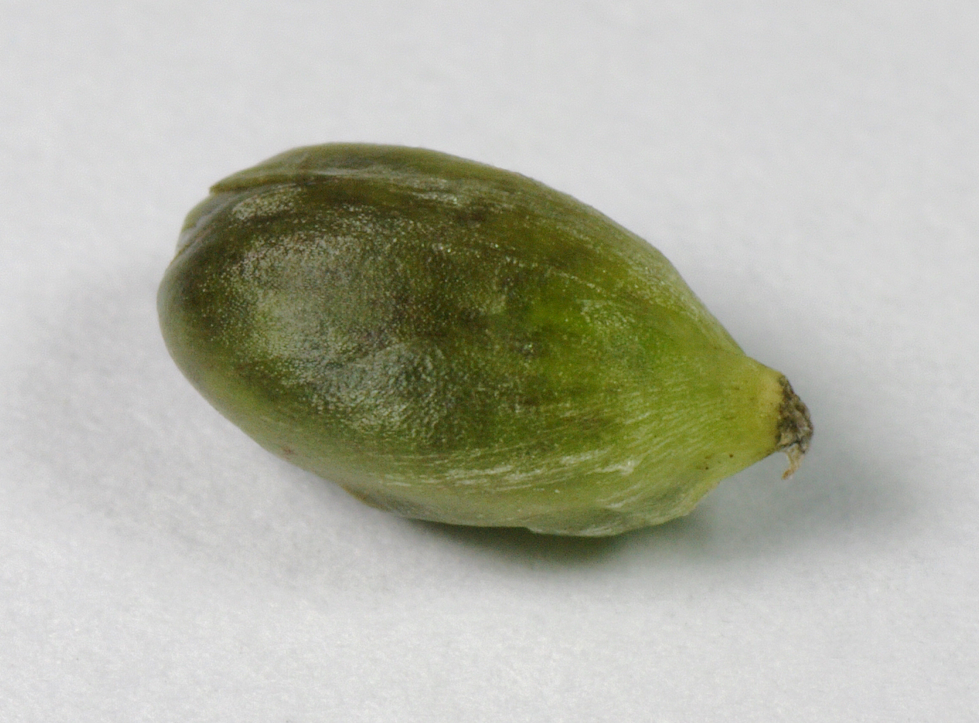 A turion of Frogbit, Hydrocharis morsus-ranae. Close-up; original length: approx 5–6 mm. In late September / early October (Central Europe), this aquatic plant goes numb and forms such resting stages for the coming year.